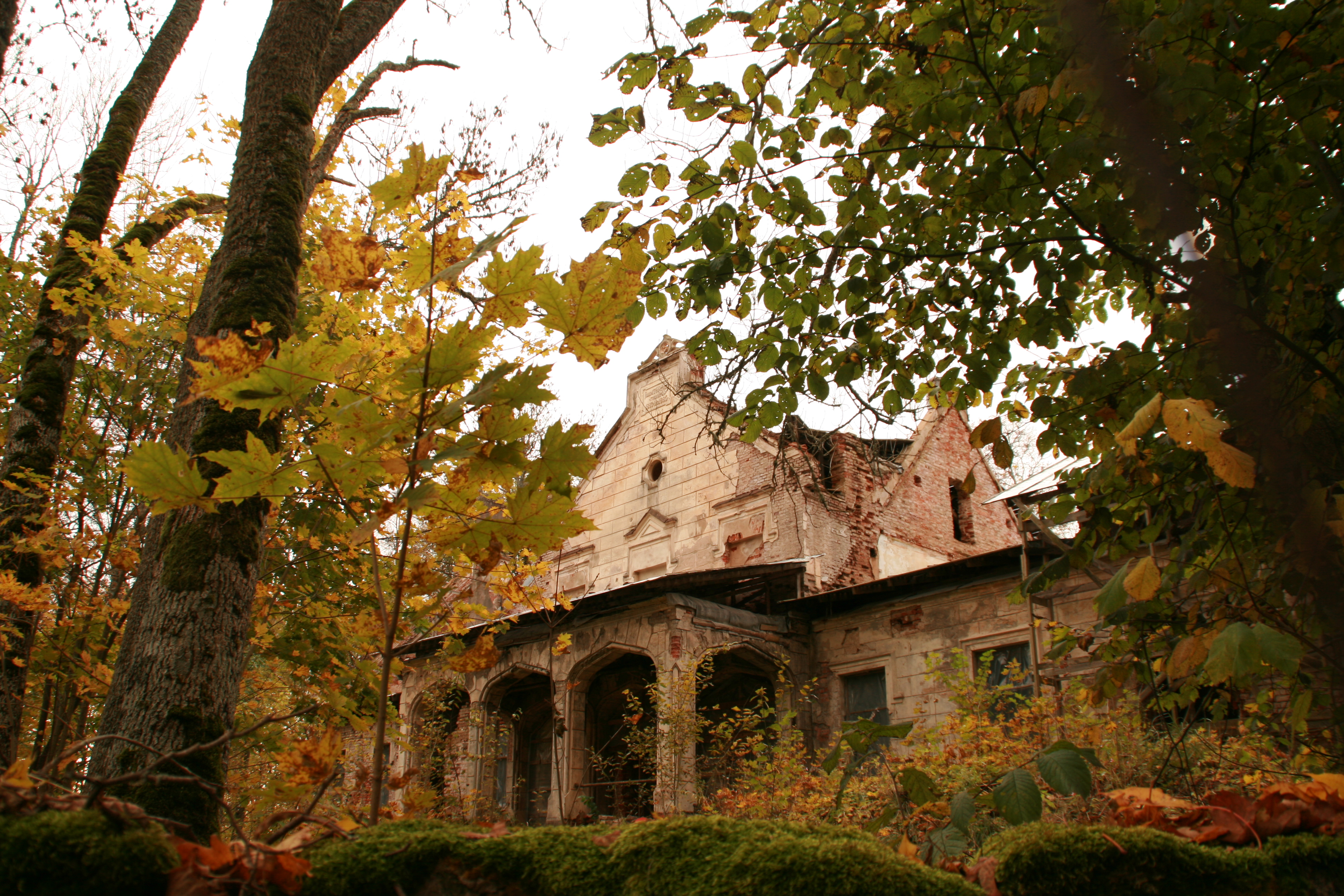 Zögenhof manor ruinsLatviešu: Sējas muižas pils drupas